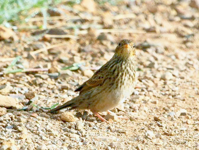 Short-tailed Pipit (Anthus brachyurus) at Cedara Farm, KwaZulu-Natal.